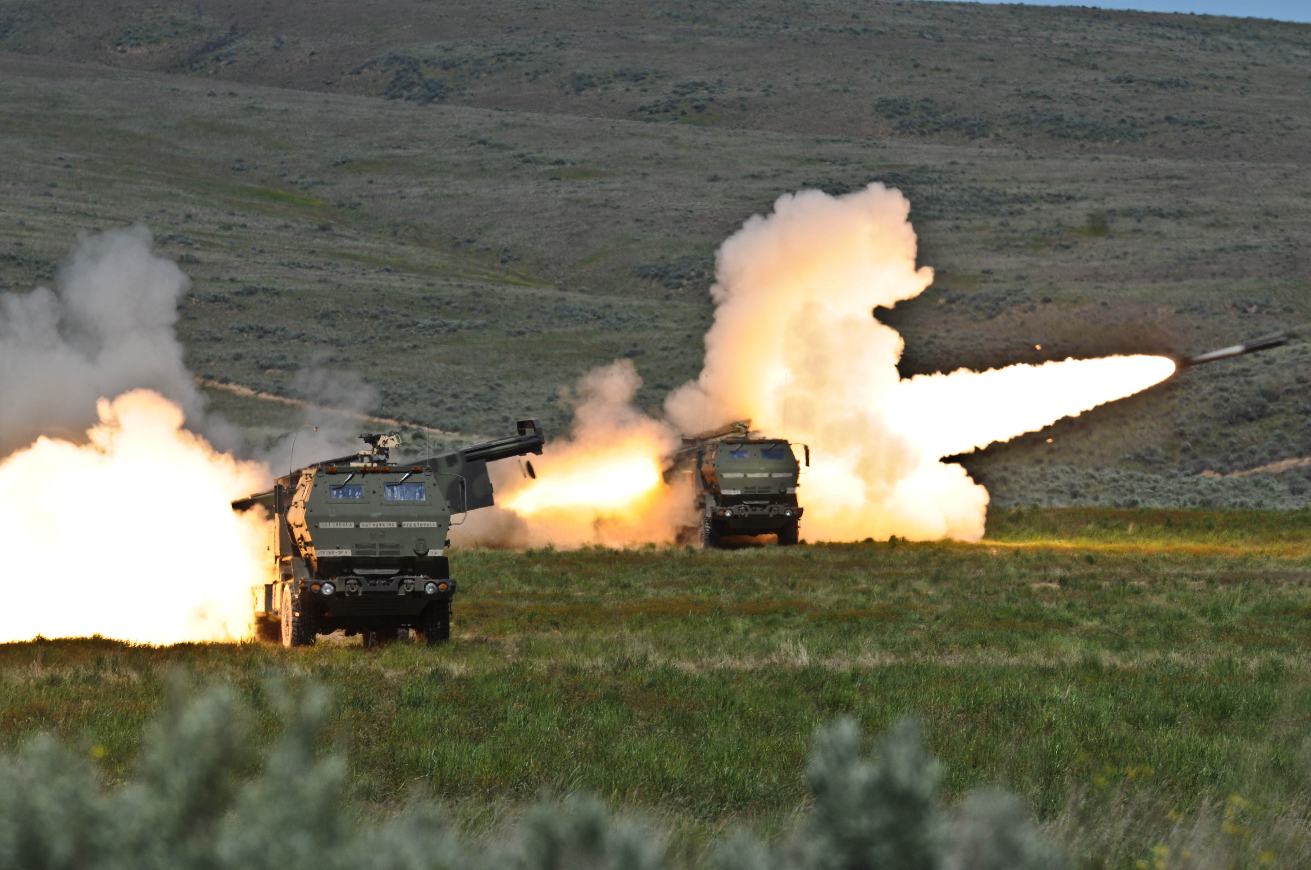 Second Platoon, Battery B, 5th Battalion, 3rd Field Artillery Regiment soldiers fire two rounds from their High Mobility Artillery Rocket systems at Yakima Training Center in Central Washington State May 24 in support of a fire coordination exercise for an element of 3rd Stryker Brigade Combat Team, 2nd Infantry Division. It’s customary in the community of Multiple Launch Rocket Systems, like the HIMAR, to tape new platoon leaders’ patrol caps to the backs of the rockets before a live fire, thereby destroying them and properly welcoming the new second lieutenants to the team. Photo by Sgt. Christopher Gaylord Date Taken:05.24.2011 Location:YAKIMA TRAINING CENTER, WA, US